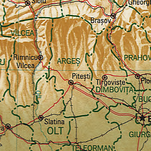 Map of Argeș County, Romania.